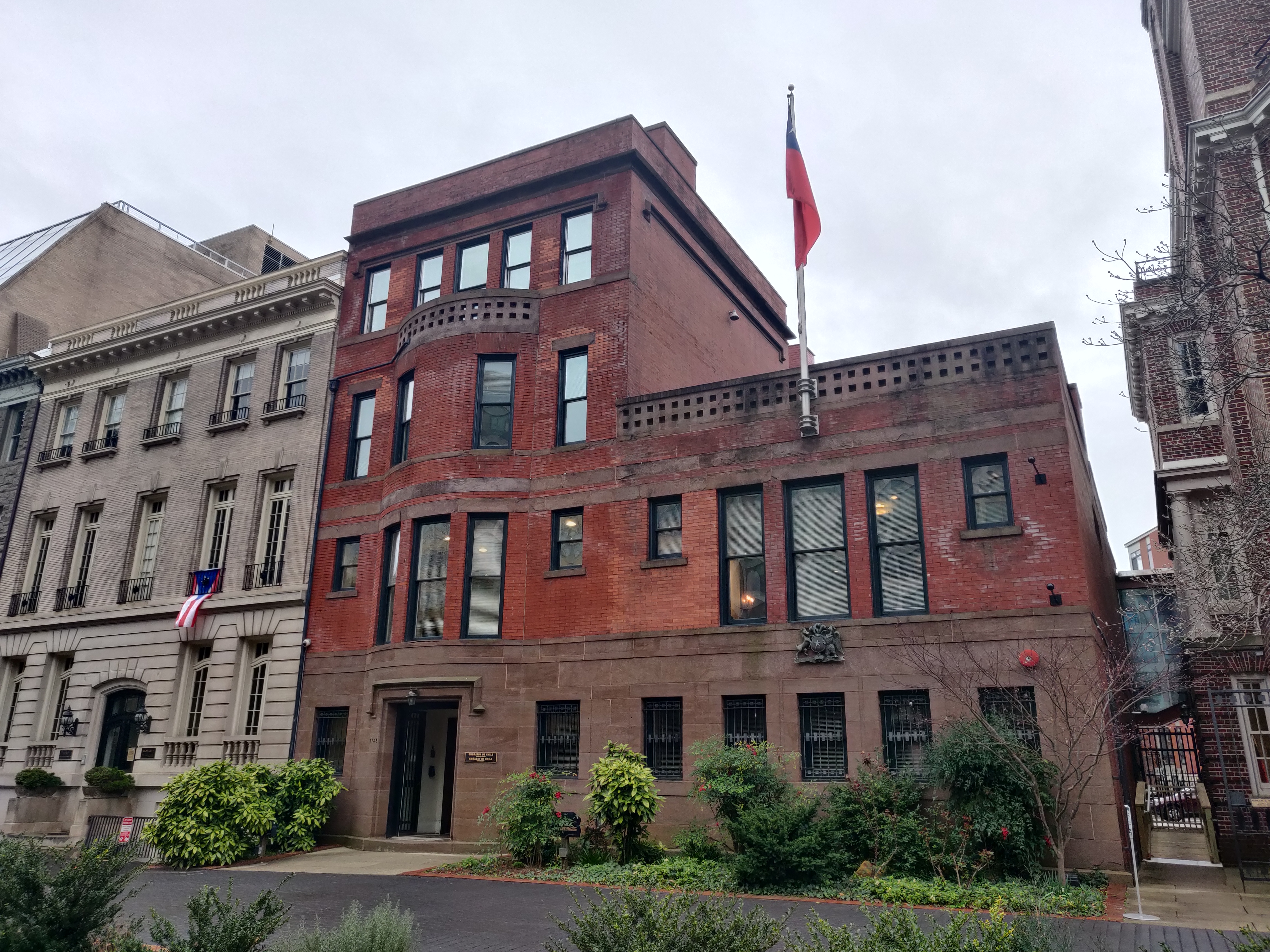 embassy